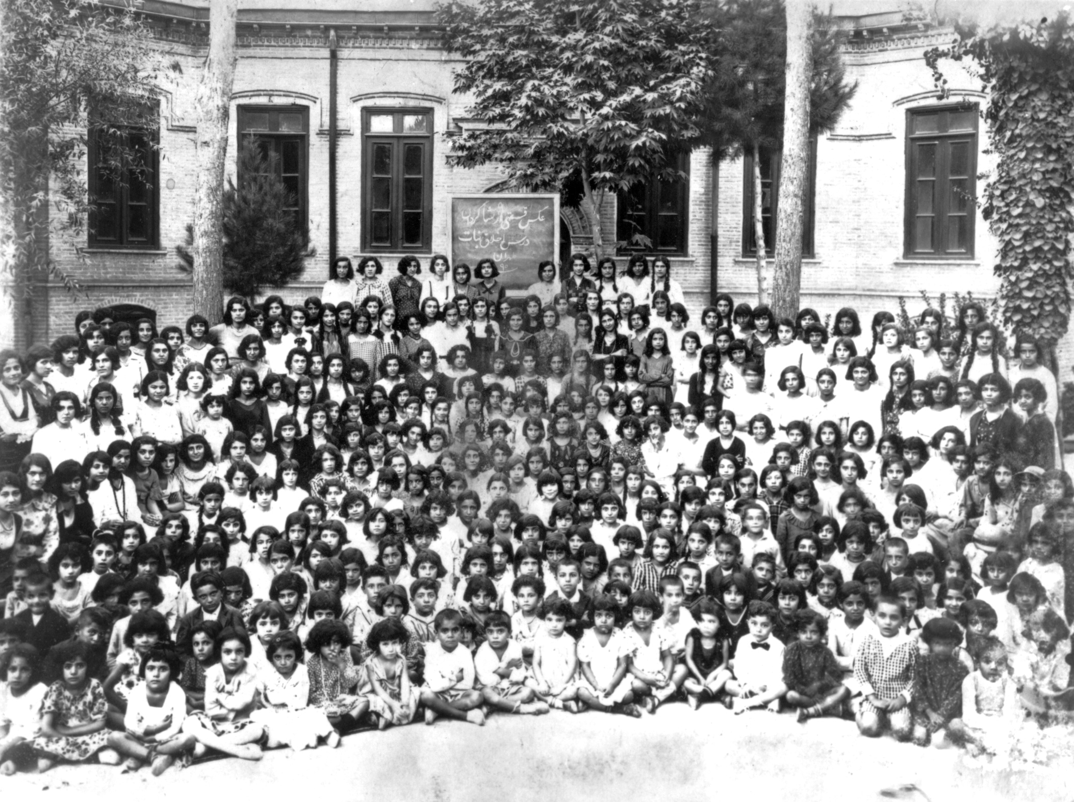 Tarbiyat School, Tehran. The writing on the blackboard states: "Photograph of a part of the students of the Ethics School [Dars-e Akhlāgh] for Girls [Banāt], Tehran, Year 90" ("Aks-e ghesmati az shāgerdān-e dars-e akhlāgh-e banāt, Tehran, S [Saneh-ye] 90"). Here "S 90" refers to year 90 BE. The photograph has been taken on 13 August 1933. Source: Official Site of the Bahá’í International Community, The History of Bahá'í Educational Efforts in Iran. Note: It is conceivable that this photograph is not of the students of Tarbiyat School, but of the students of a usual Friday Dars-e Akhlāgh Class/School; the source of this photograph does not specify it unequivocally. For completeness, Dars-e Akhlāgh Class/School can be compared with Sunday School of the Christian communities. Further, Tarbiyat School for Girls was established in 1911 in Tehran and was closed by government decree in 1934. (Source: The History of Bahá'í Educational Efforts in Iran.)